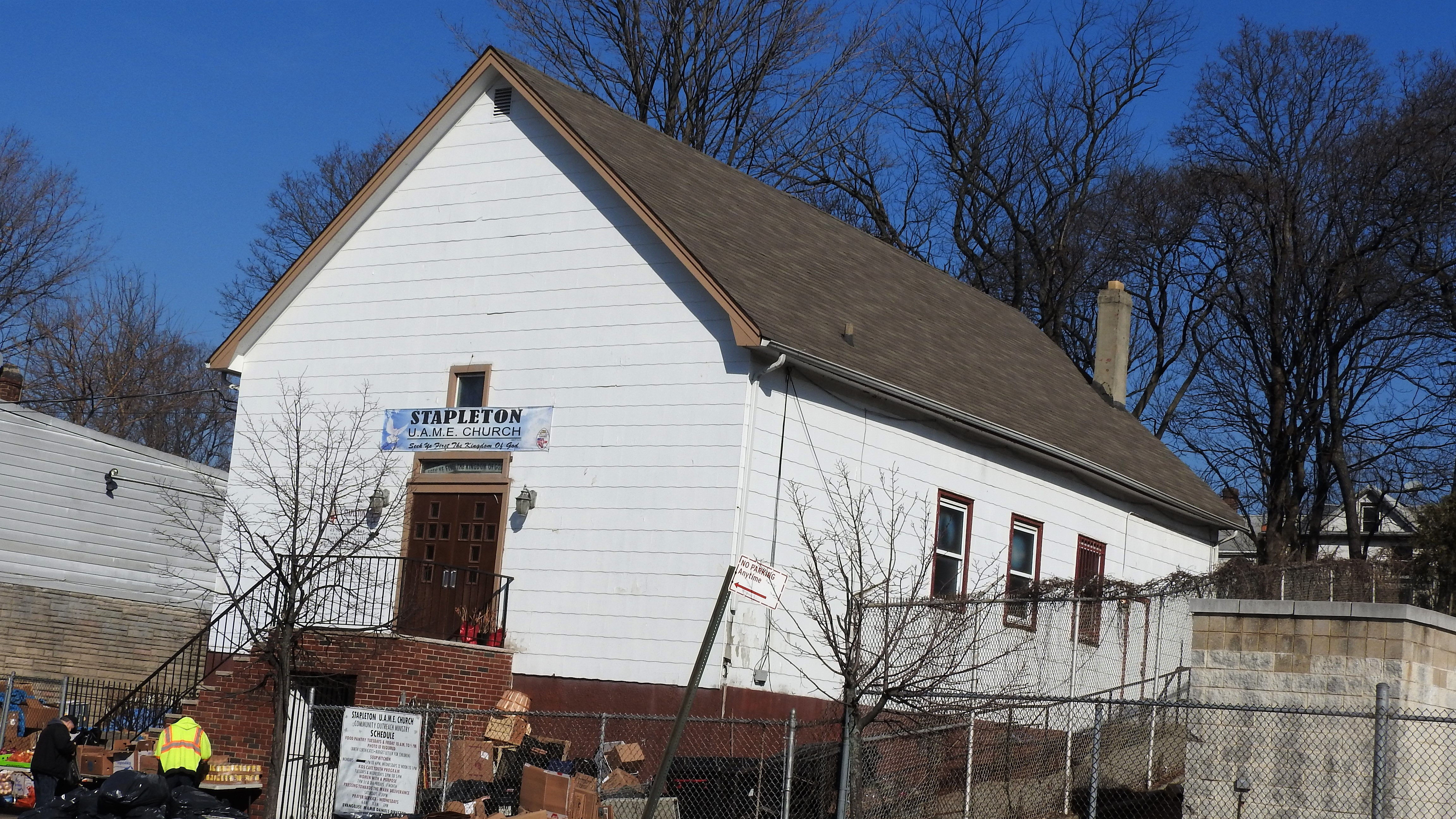 Looking northeast at Stapleton Union American Methodist Episcopal Church on a sunny afternoon